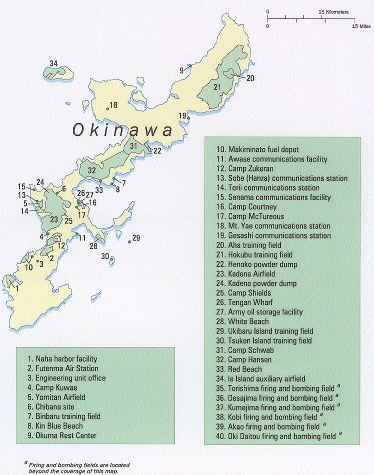 U.S. Bases on Okinawa.